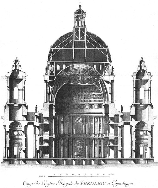 Section of Nicolas-Henri Jardin's (1720-1799) proposal for Frederick's Church in Copenhagen.